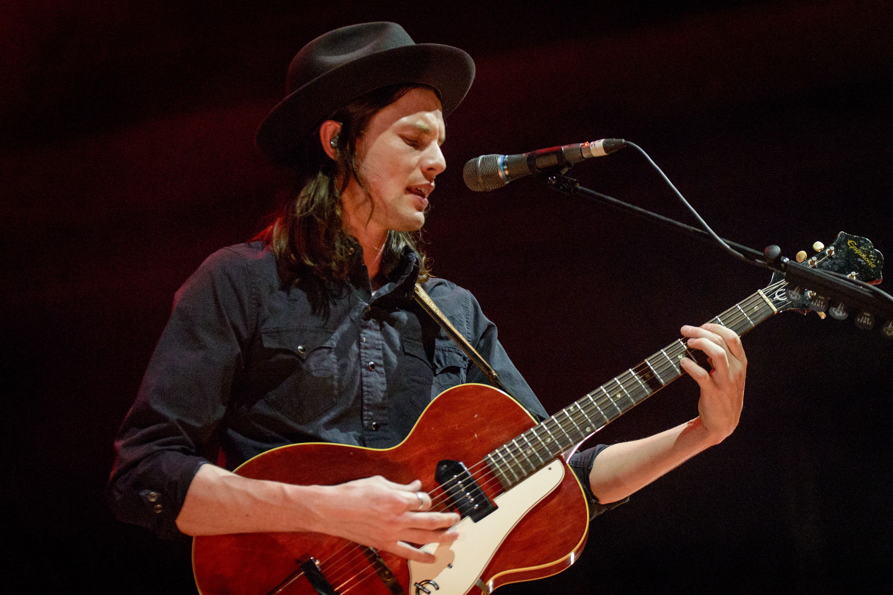 James Bay / Live 2016